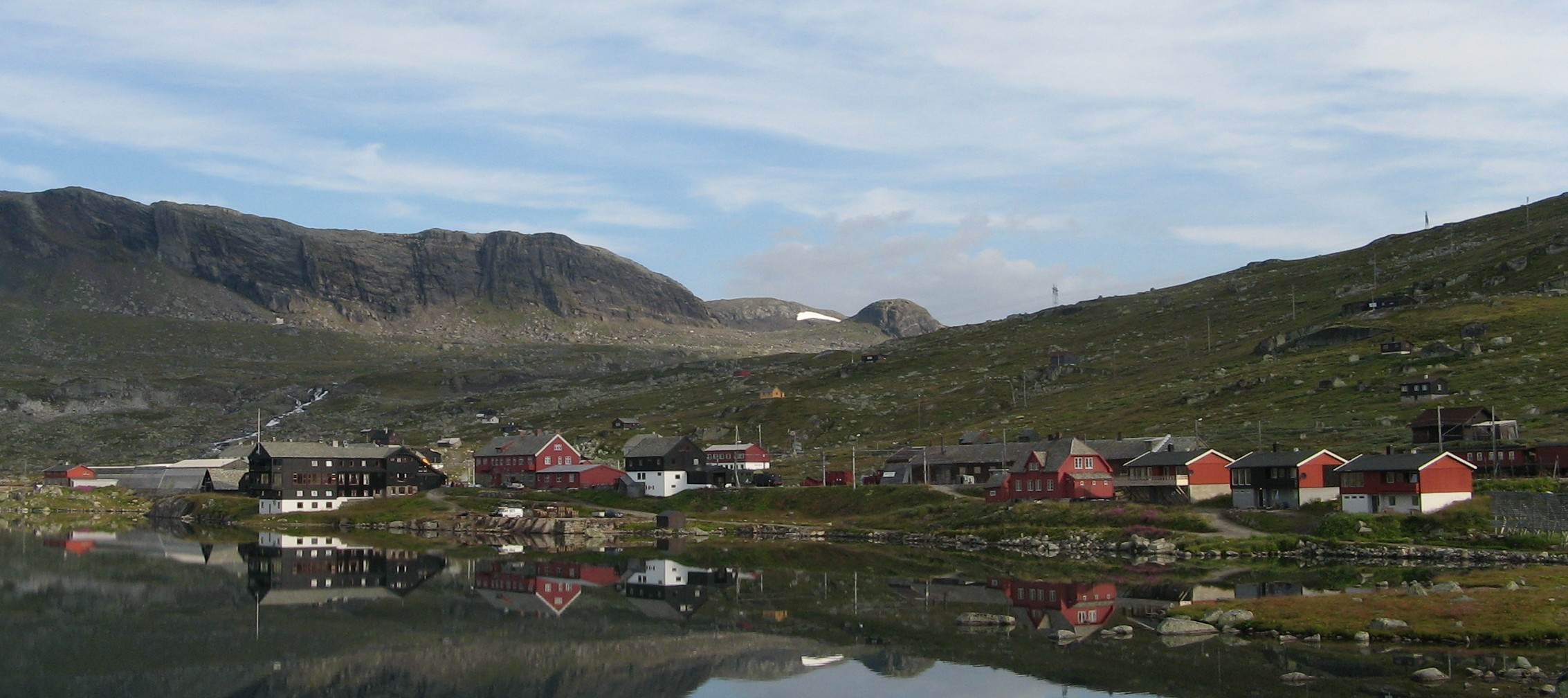 Photo of Finse taken from the tourist association lodge 2006-08-12 0902.